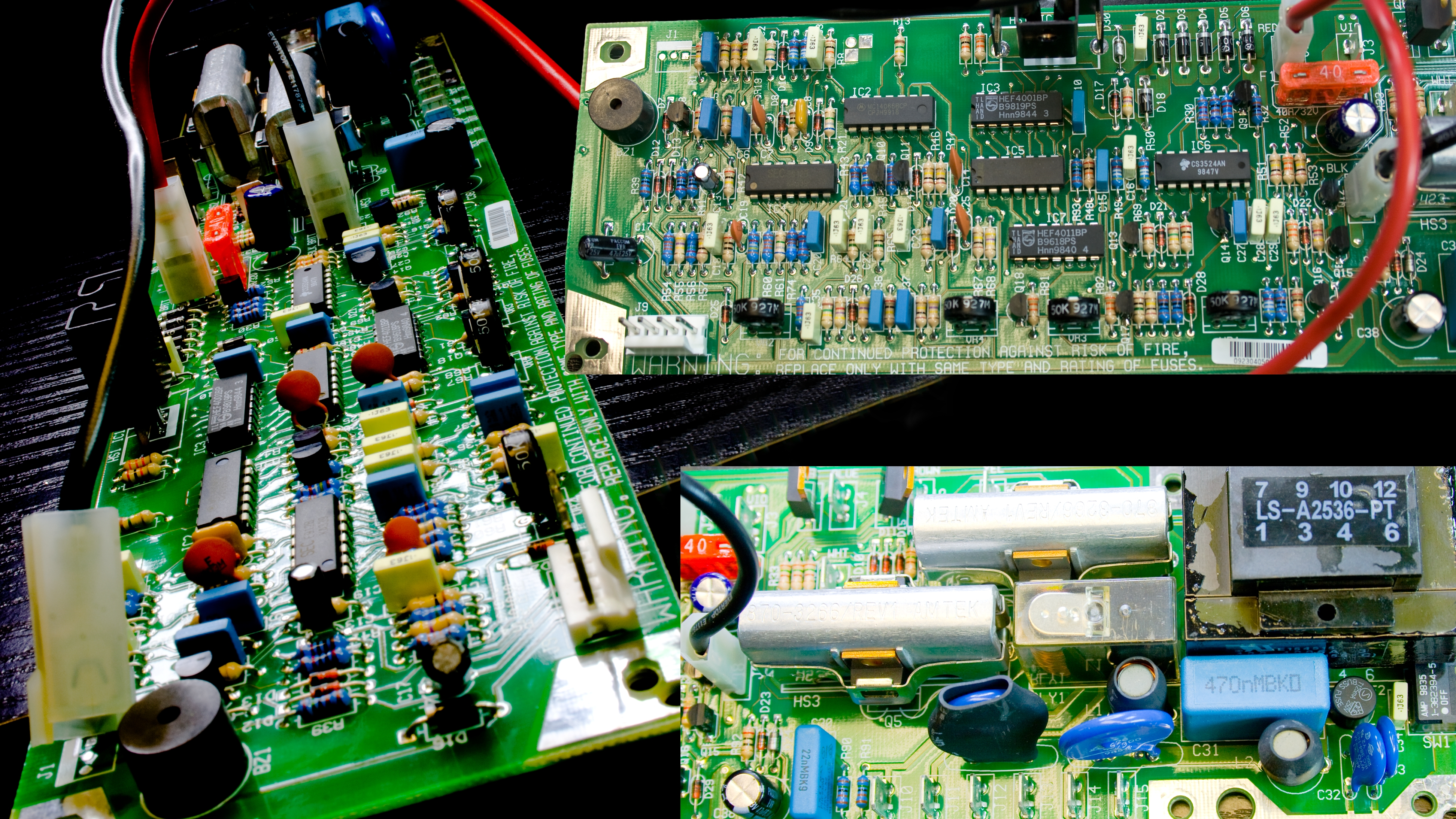 uninterruptible power supply